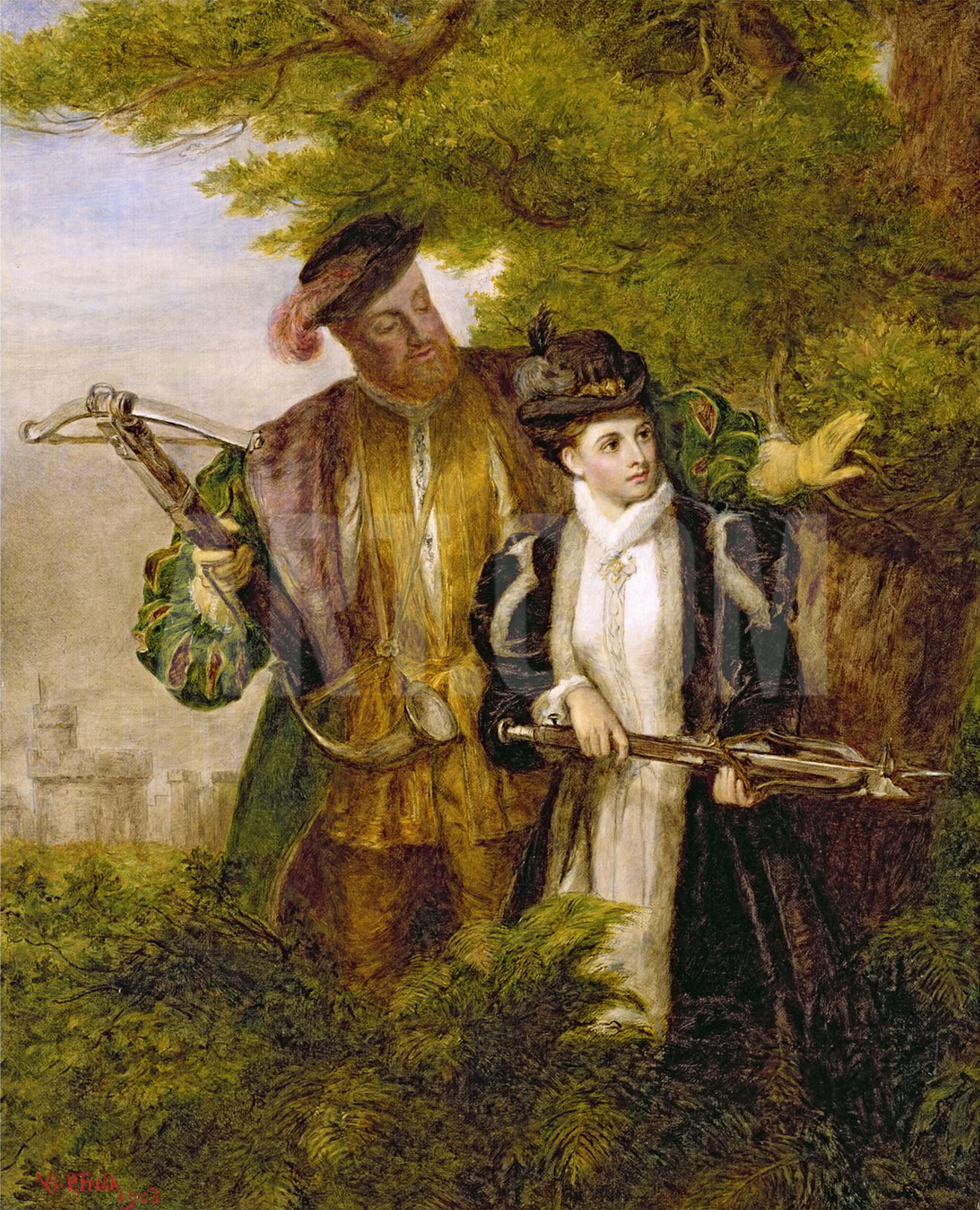 Henry VIII (1491-1547) and his second wife Anne Boleyn (1501/7-1536)